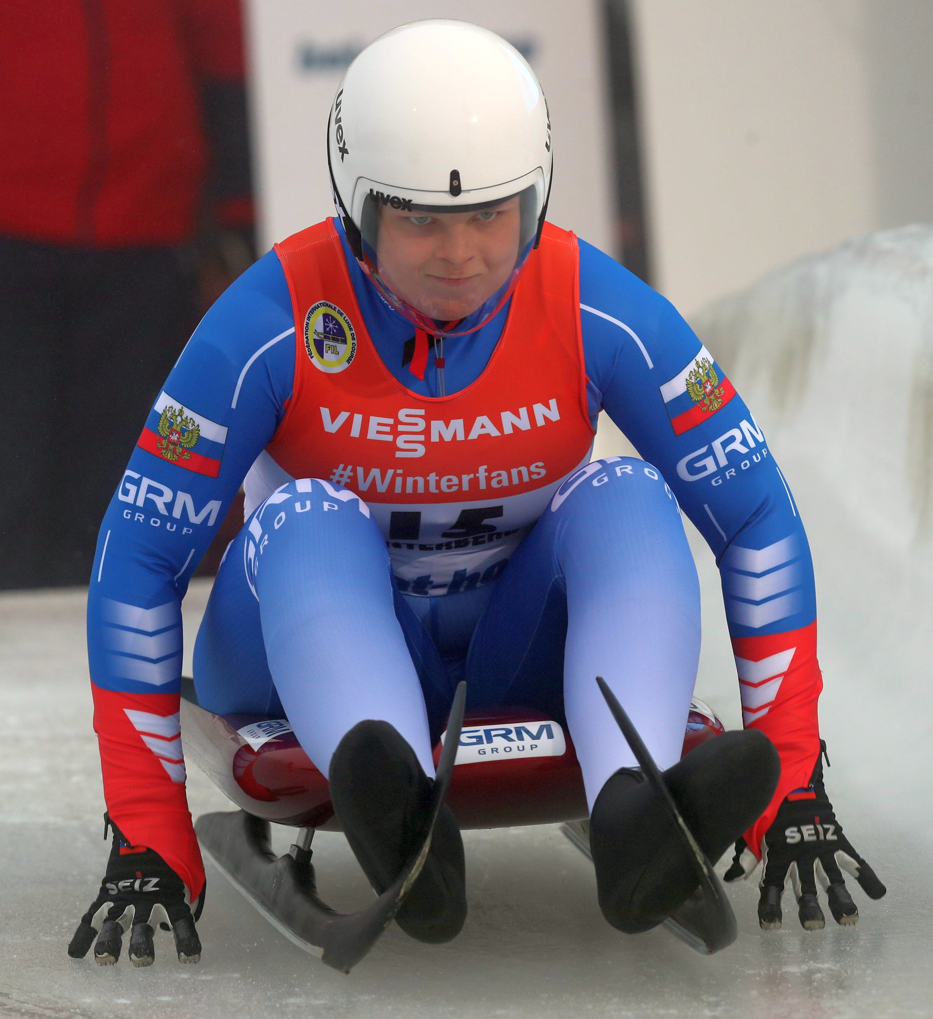 Women's race at the FIL World Luge Championships 2019 in Winterberg